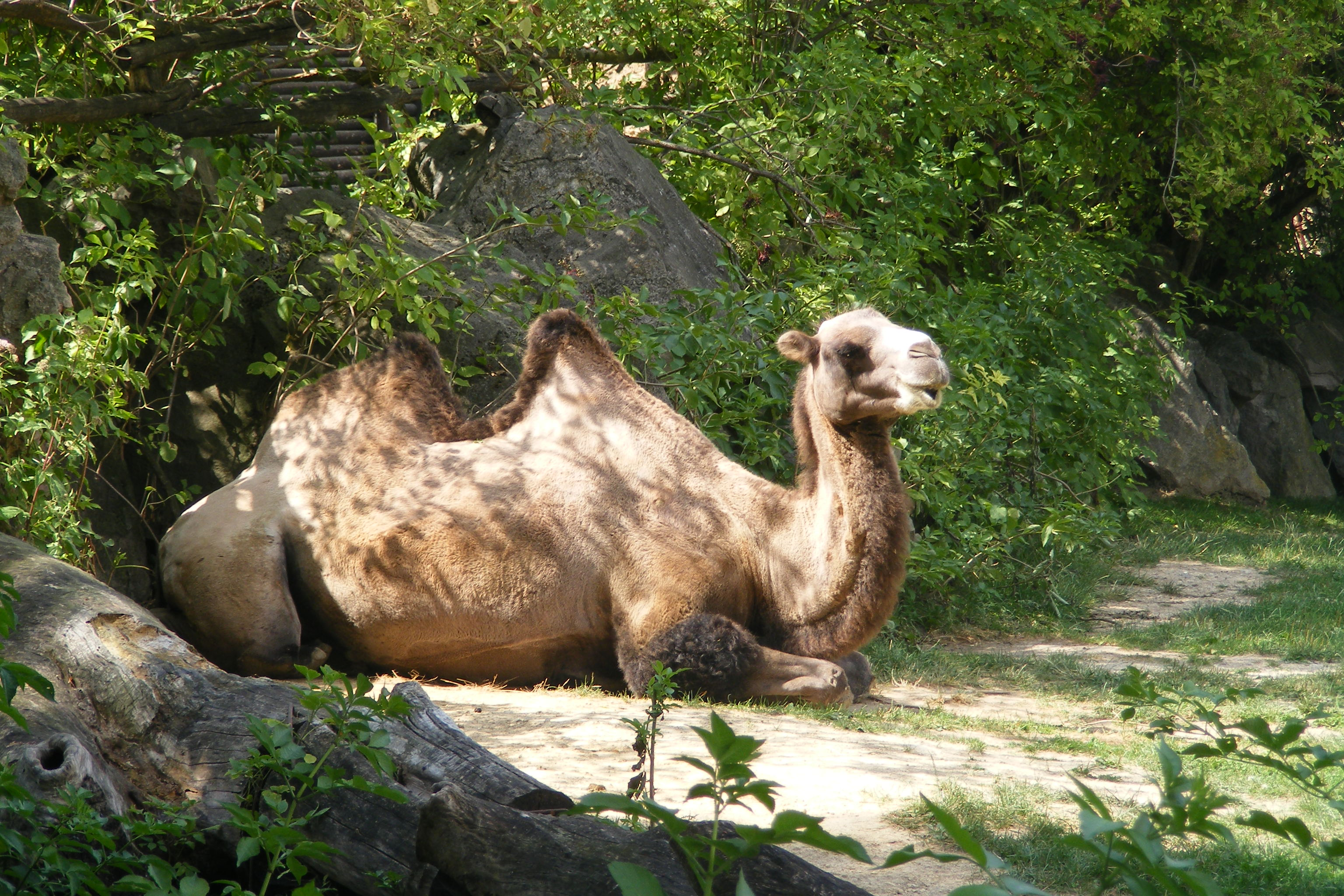 Camel in Bojnice ZOO